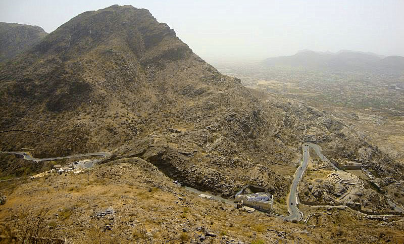 It is the long shot of Pushkar Ghati, road through mountain, which connect Ajmer city and Pushkar.